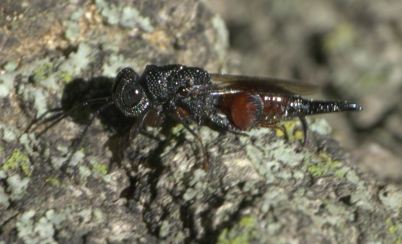 Phasgonophora sulcata, Family: Chalcidid Wasps, ID Confidence: 98